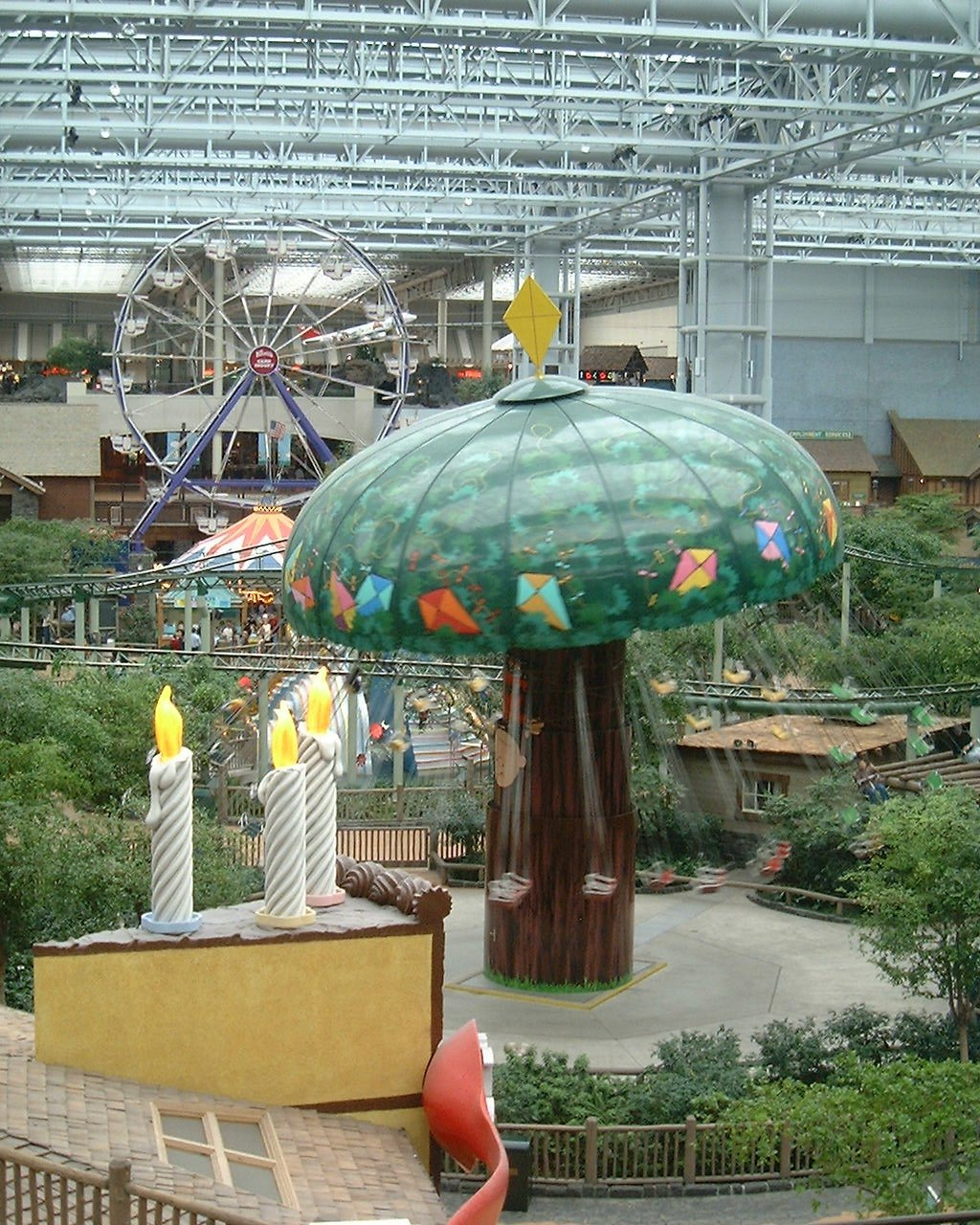 The Park at MOA, formerly Camp Snoopy, indoor theme park in Mall of America.